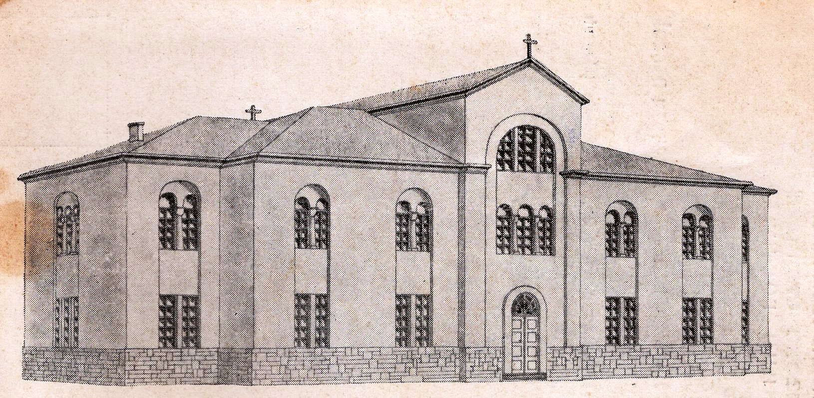 Monastery of St. Simeon Stylite in Simnica, Gostivar, the design of building, from the 1930s This media file is produced by Wikipedian in Residence in Category:Wikipedian in Residence at DARM in 2016.